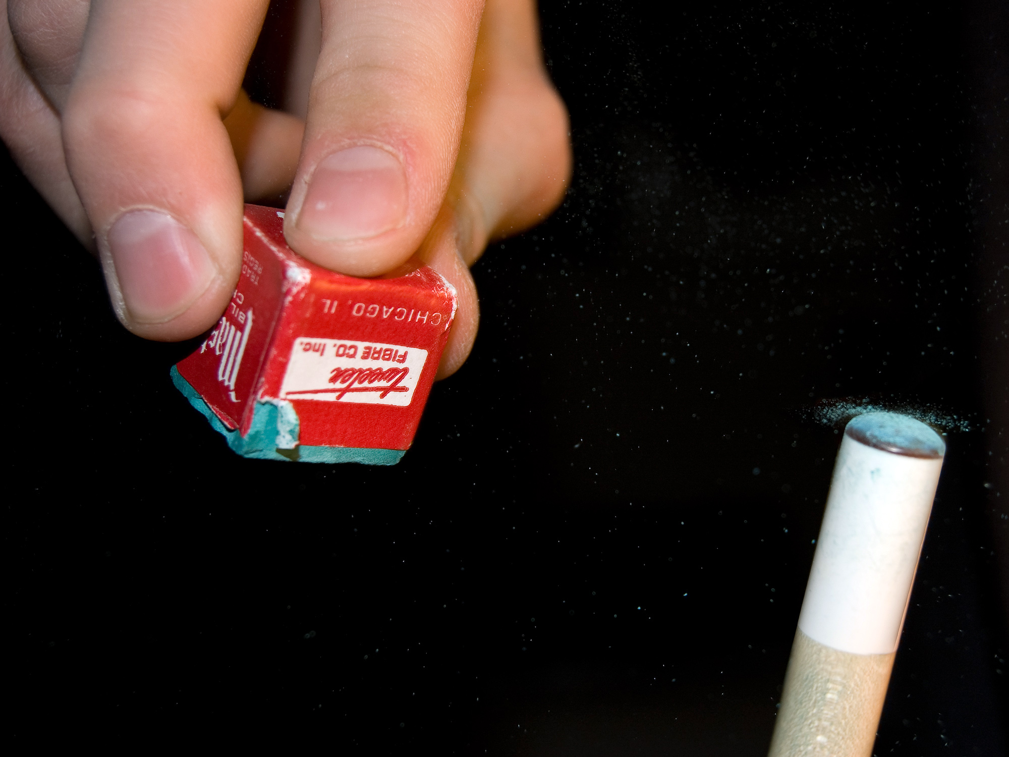 Billiard chalk is used to increase friction between the cue tip and the cue ball during a billiards game.